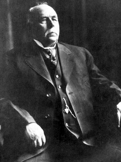 Photograph of Jesse Knight (6 September 1845 — 14 March 1921) was one of relatively few Latter-day Saint mining magnates in nineteenth century Western America.